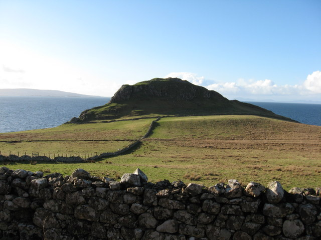 Dun Skudiburgh Dun is the Gaelic for fort,which was built on a suitable crag or look out. This photo shows what a fantastis spot this was to see any invader coming in from the sea. The dun seemed to have arrived with the Brthonic Celts in about the 7th century BC. They are associated with the Iron Age culture of warrior tribes and petty chieftains. The duns were often smaller than brochs and were not capable of supporting large, tall structures. When does a dun become a broch?